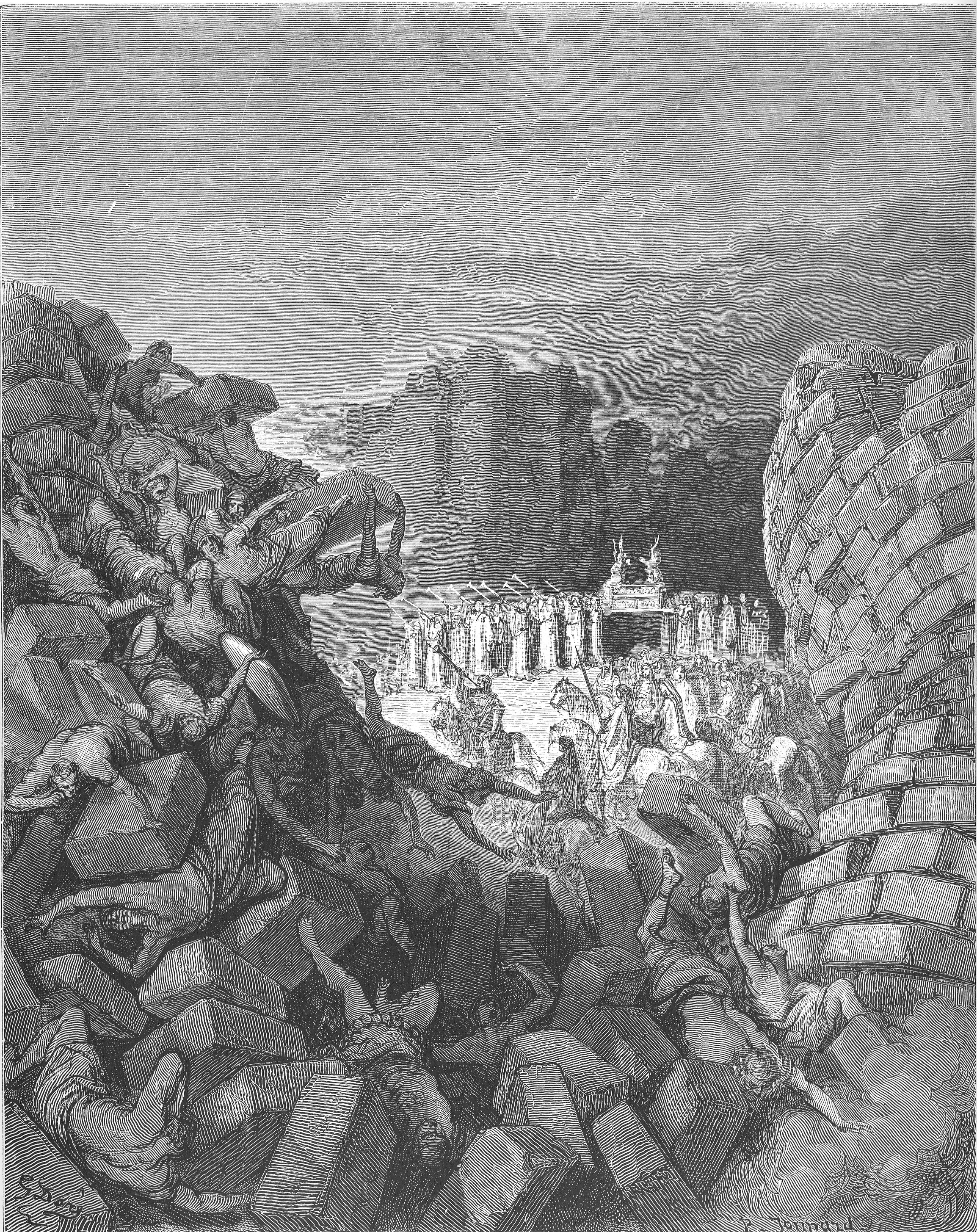 The Walls of Jericho Fall Down (Josh. 5:16, 6:1-10,13-19)